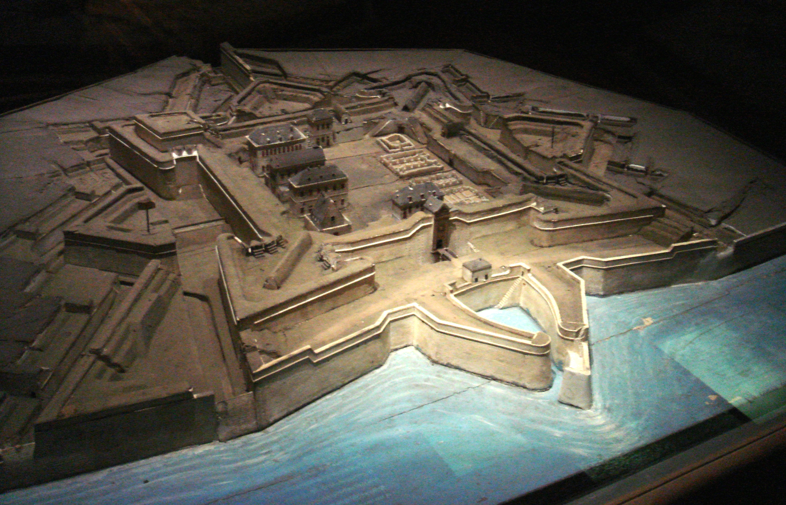 Saint-Martin-de-Ré citadel, built by Vauban in 1681